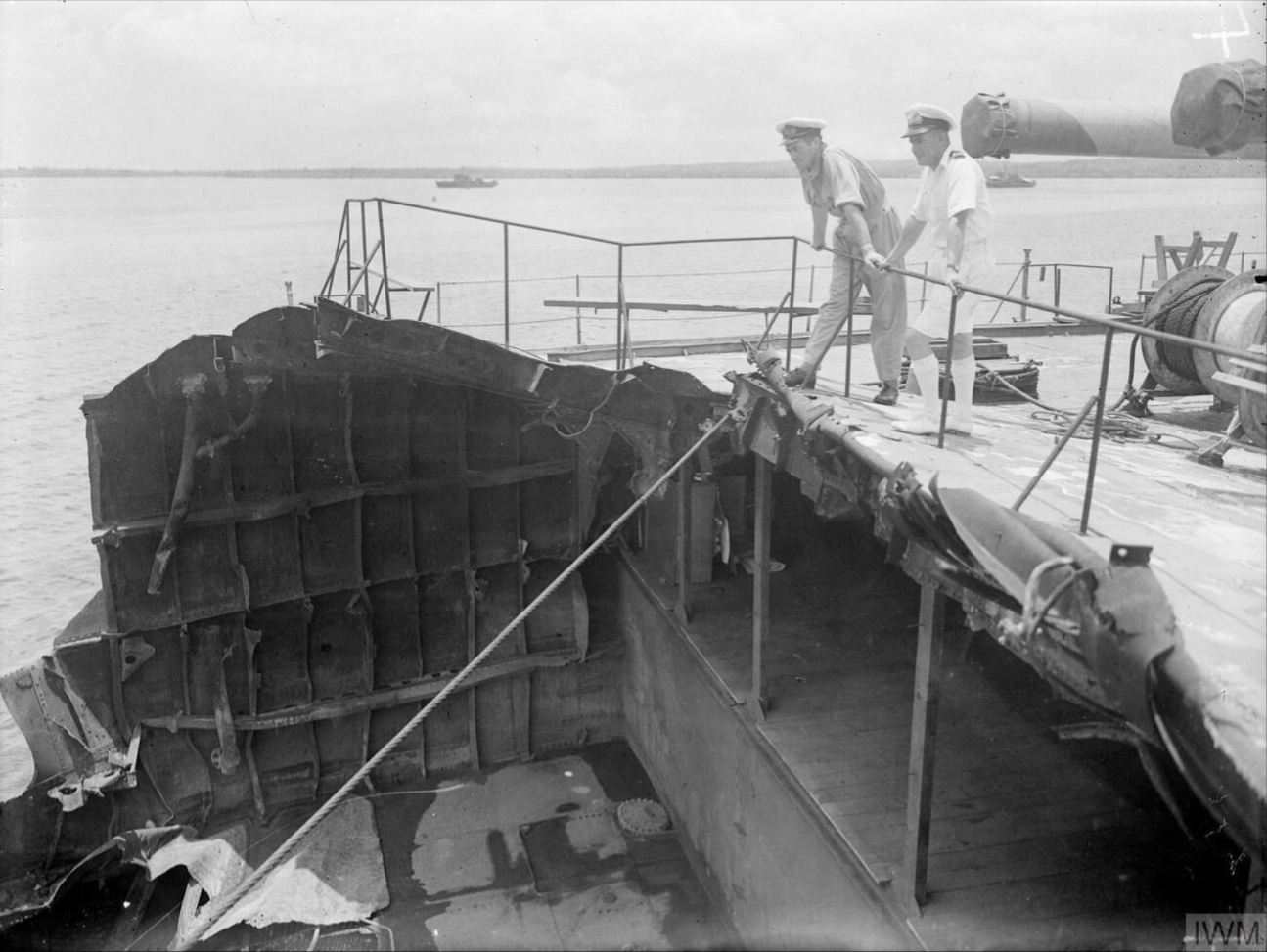 Captain Power visits the damaged Japanese cruiser. 25 September 1945, Singapore. In May 1944, five ships of the Twenty-Sixth Destroyer Flotilla attached to the British East Indies fleet, led by HMS Saumarez, with Captain M L Power, CBE, OBE, DSO AND BAR, as Captain (D), sank the Japanese cruiser Haguro in one hours action at the entrance to the Malacca Strait. When Saumarez entered Singapore Naval Base, Captain Power with his staff officers, paid a visit to Myoko, sister ship of Haguro, now lying there with her stern blown off after the Battle of the Philippines. Crossing to the deck of the Myoko via the conning tower of a German U-boat, Captain Power and his party were met by Japanese officers who took them on a comprehensive tour of the ship. Two British naval officers examine what is left of the MYOKO's stern.